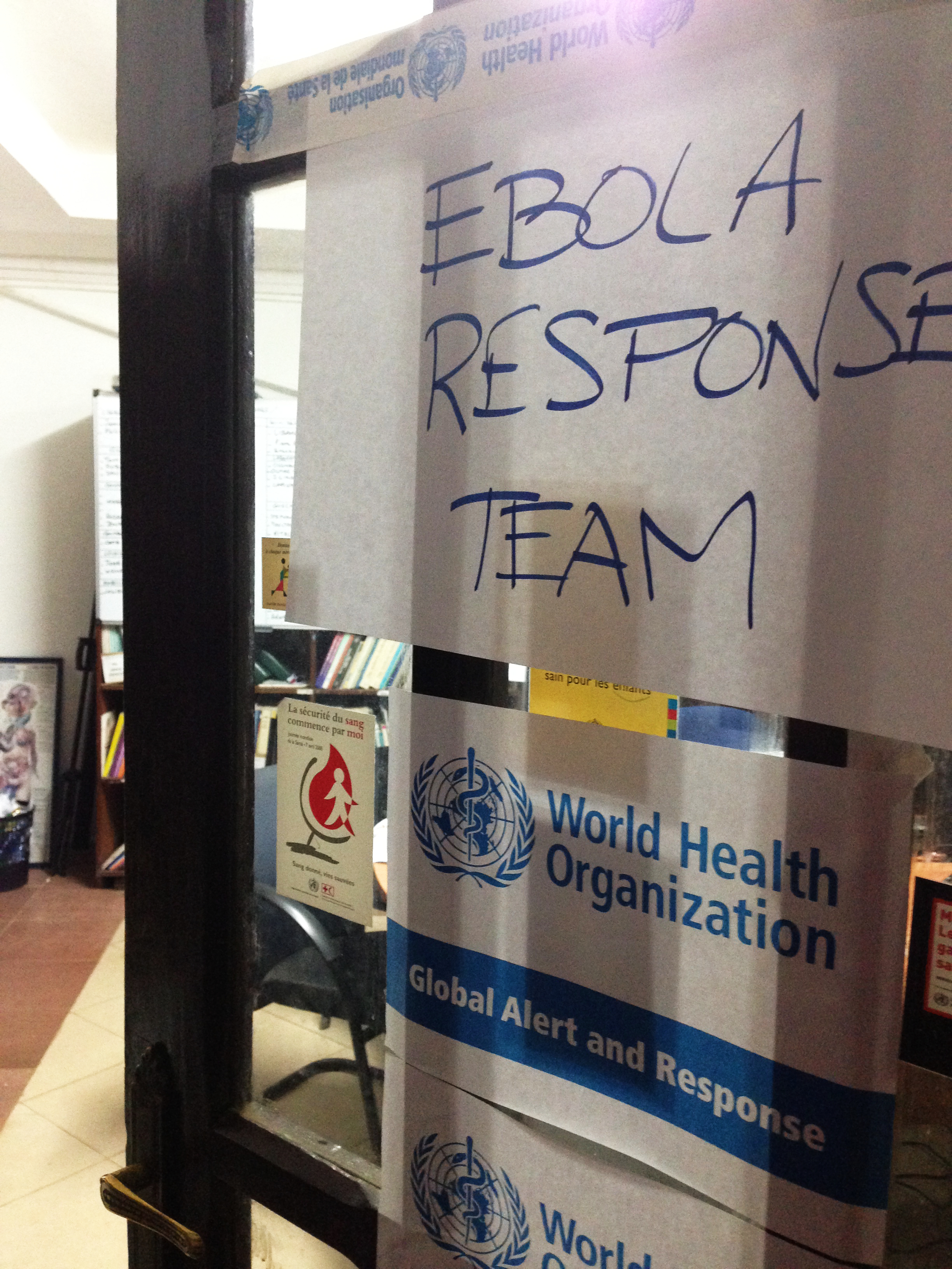 This 2014 photograph shows Ebola response signage indicating the presence of the World Health Organization (WHO) on site in West Africa during Ebola virus disease outbreak.